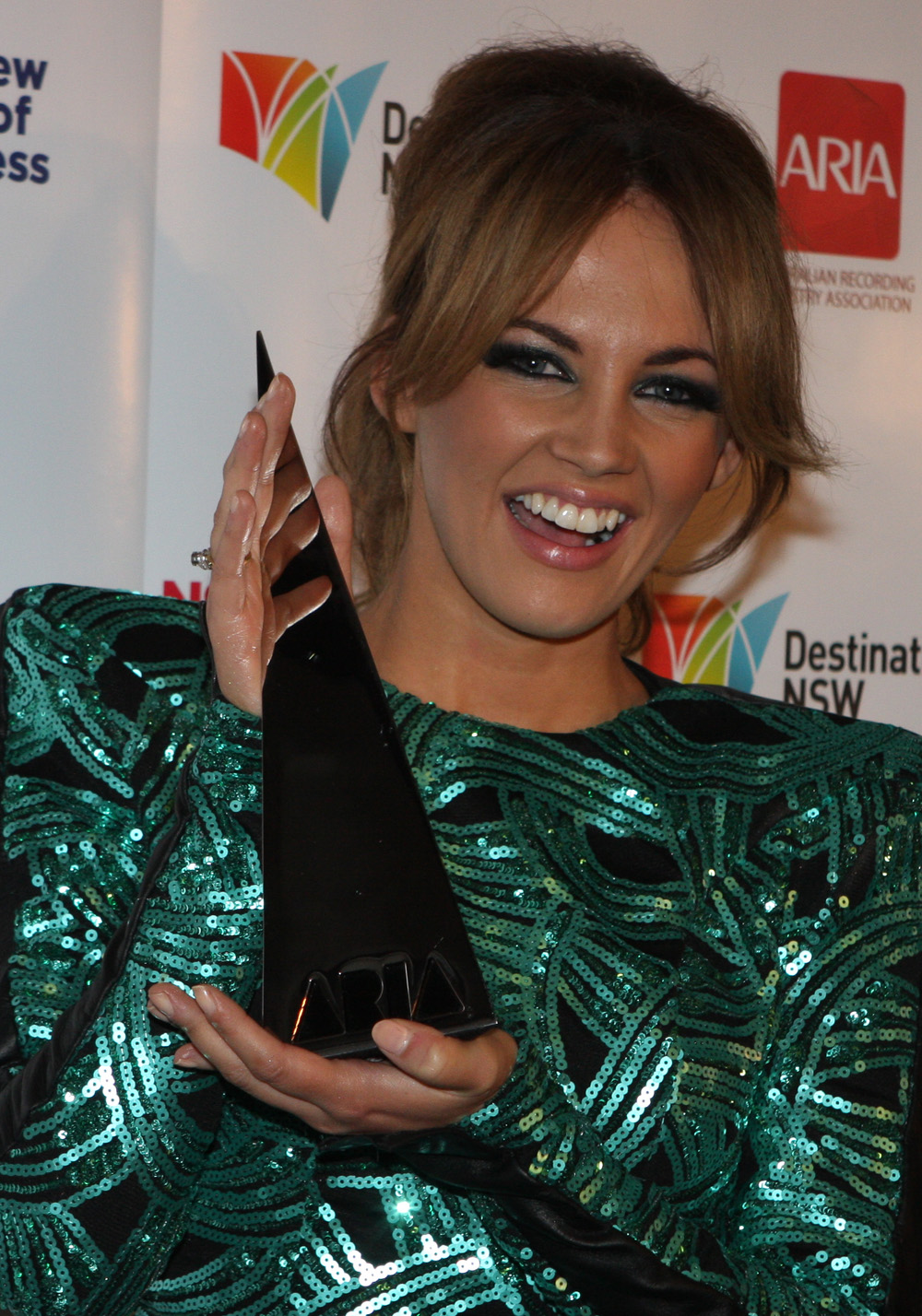 Aria Awards 2013 in Sydney Australia